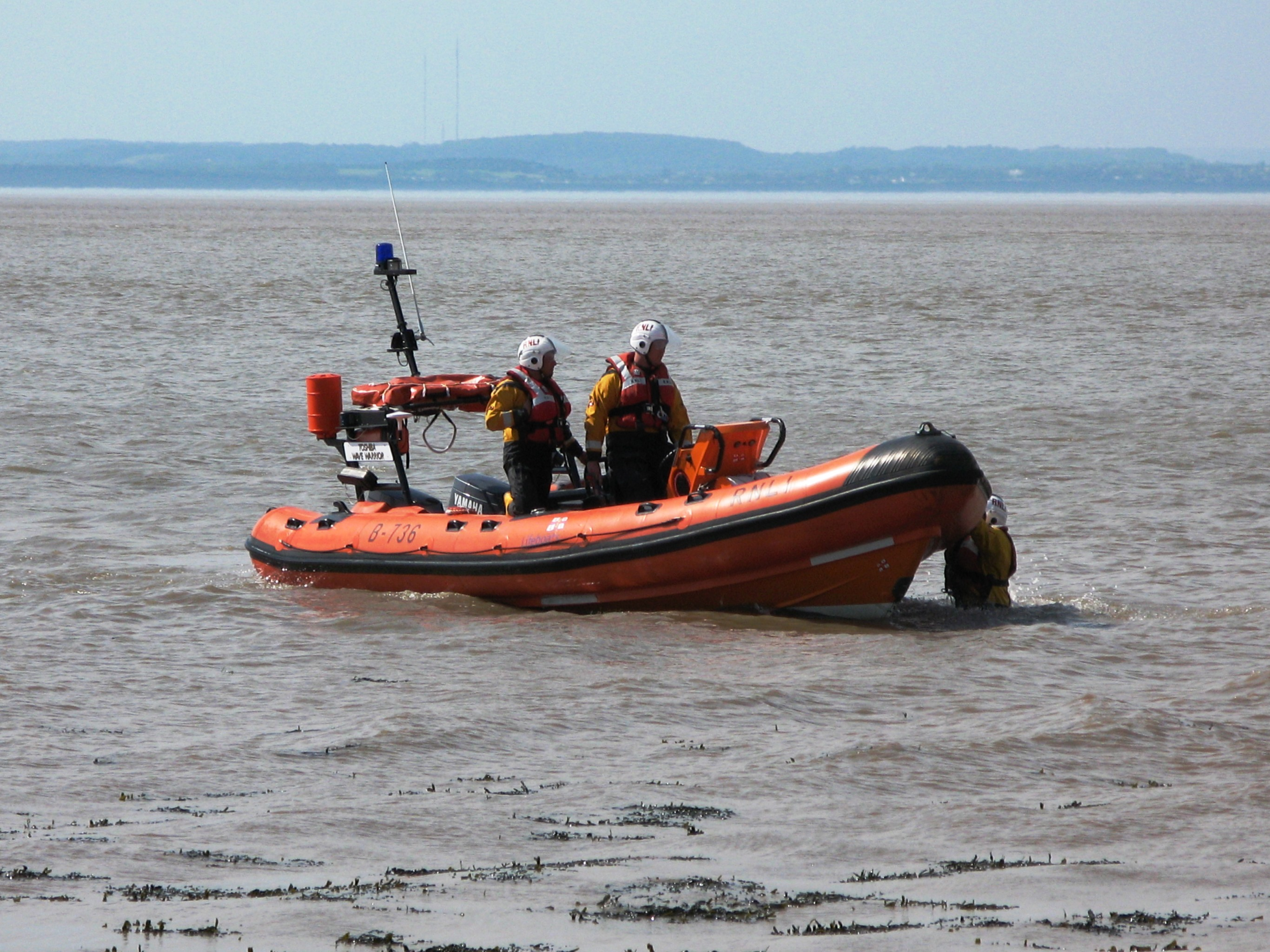 RNLI relief lifeboat B736, an Atlantic 75 class boat, off Anchor Head in Weston-super-Mare, North Somerset.